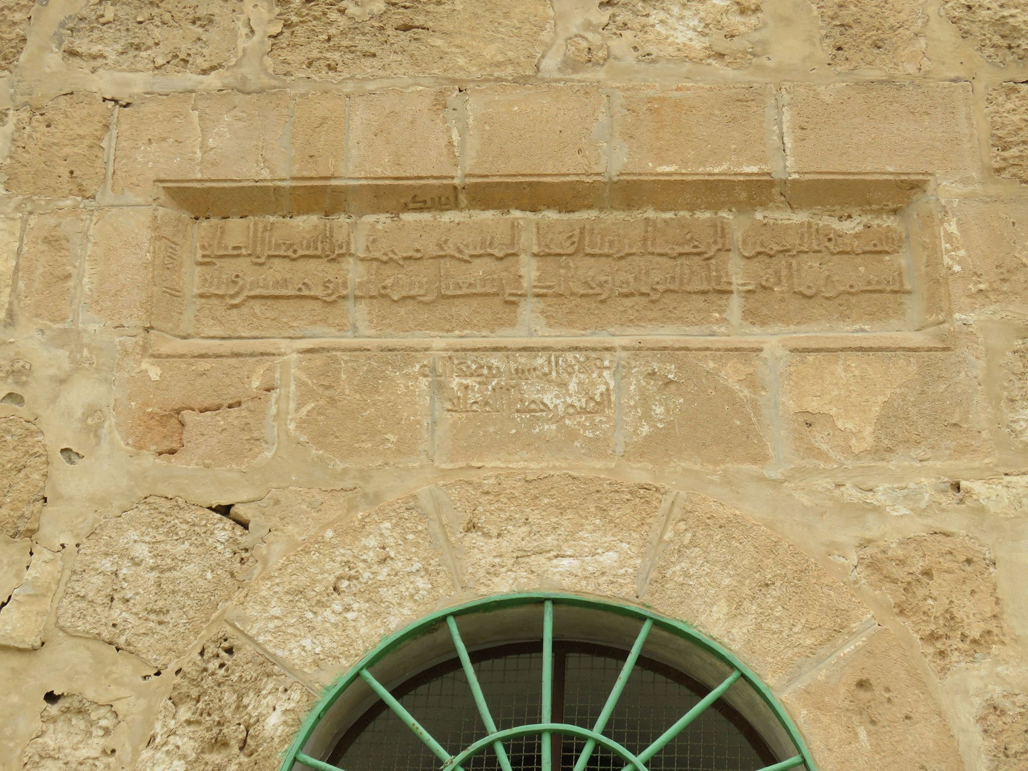 Maqam nabi Yaqin, Bani Na'im, Palestine